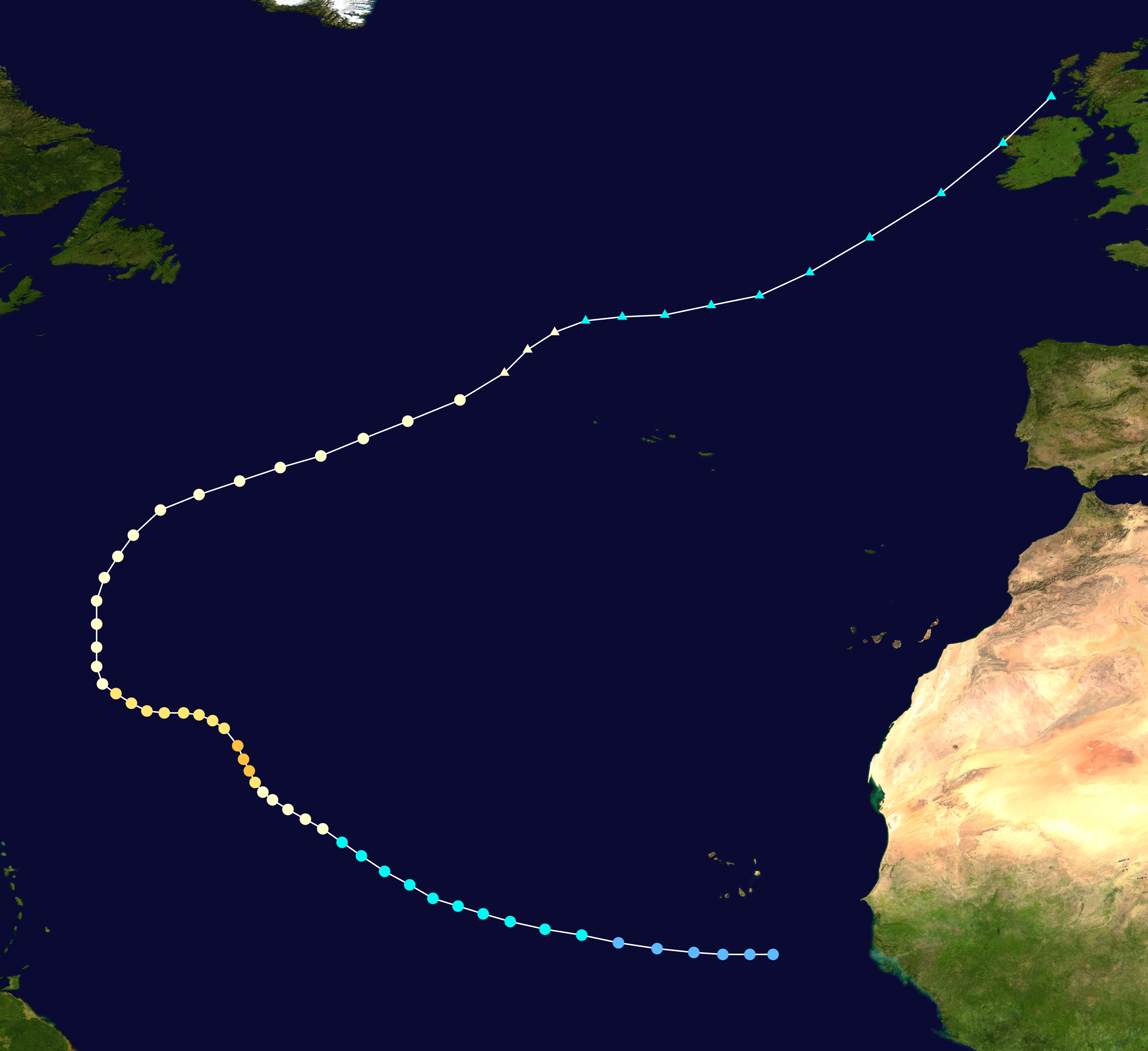 Track map of Hurricane Helene of the 2006 Atlantic hurricane season. The points show the location of the storm at 6-hour intervals. The colour represents the storm's maximum sustained wind speeds as classified in the Saffir–Simpson scale (see below), and the shape of the data points represent the nature of the storm, according to the legend below. Saffir–Simpson scale Tropical depression≤38 mph≤62 km/h Category 3111–129 mph178–208 km/h Tropical storm39–73 mph63–118 km/h Category 4130–156 mph209–251 km/h Category 174–95 mph119–153 km/h Category 5≥157 mph≥252 km/h Category 296–110 mph154–177 km/h Unknown Storm type Tropical cyclone Subtropical cyclone Extratropical cyclone / Remnant low / Tropical disturbance / Monsoon depression